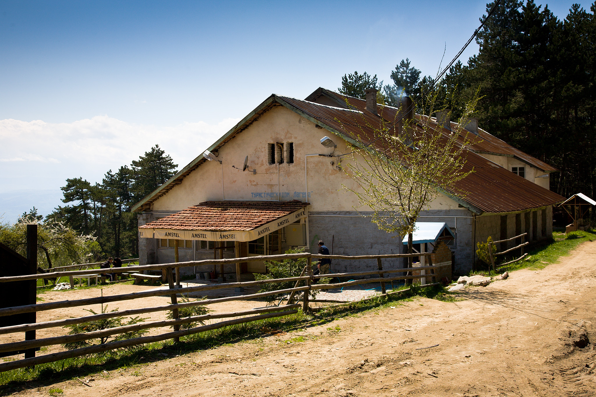 Lagera refuge in northern Pirin mountains, Bulgaria